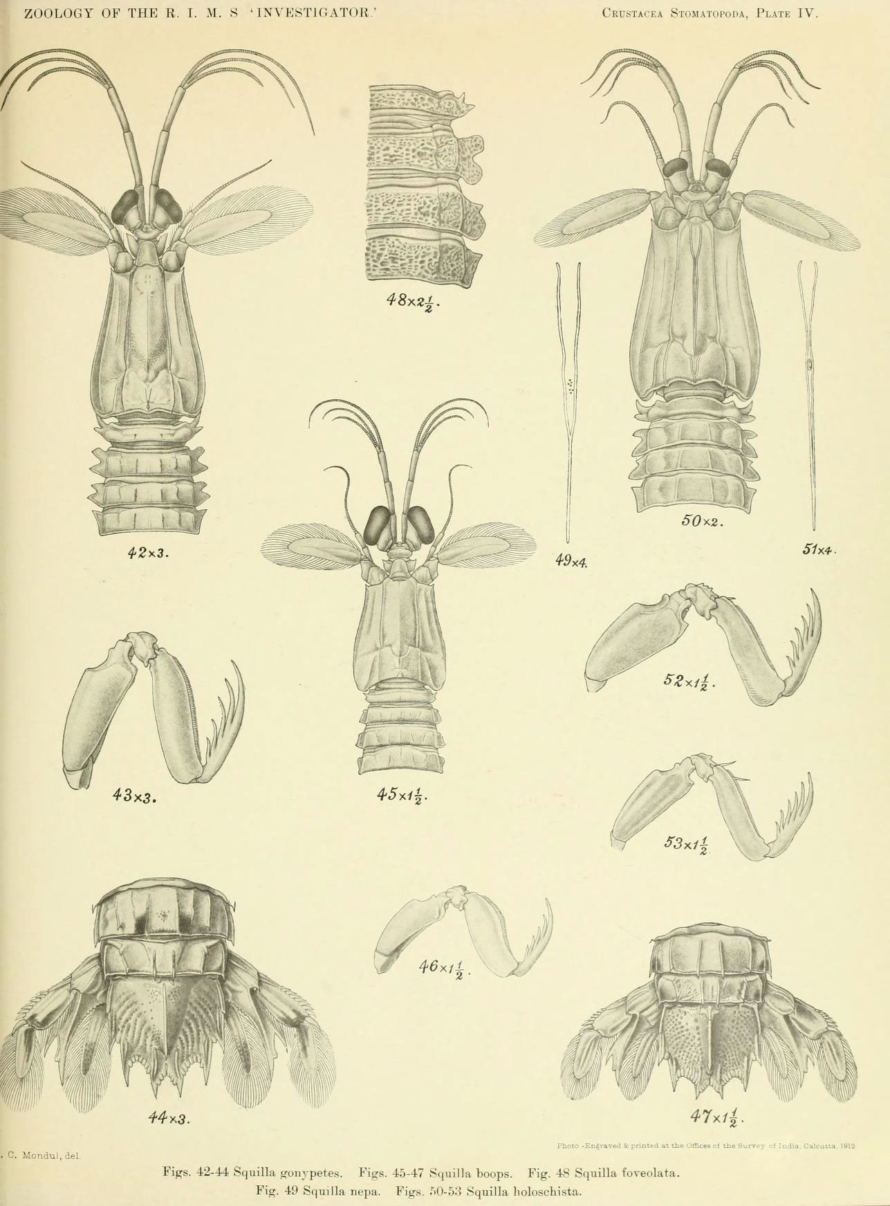 ZOOLOGY OF THE R. I. M. 8 'INVESTIGATOR.' Crustacea Stomatopoda, Plate IV, 43x3. 45 %i^. / h^ ssxii ■ C. Mondul.del. 4rx/f Photo -En^Jraved & prinied at the Offices oi the Survey of India. Calcocta. Ifll2 Fips. 42-44 Squilla tjonypetes. Figs. 45-47 Squilla boops. Fig. 48 Squilla foveolata. Fig. 49 Squilla nepa. Figs. .^0-53 Squilla lioloschista.